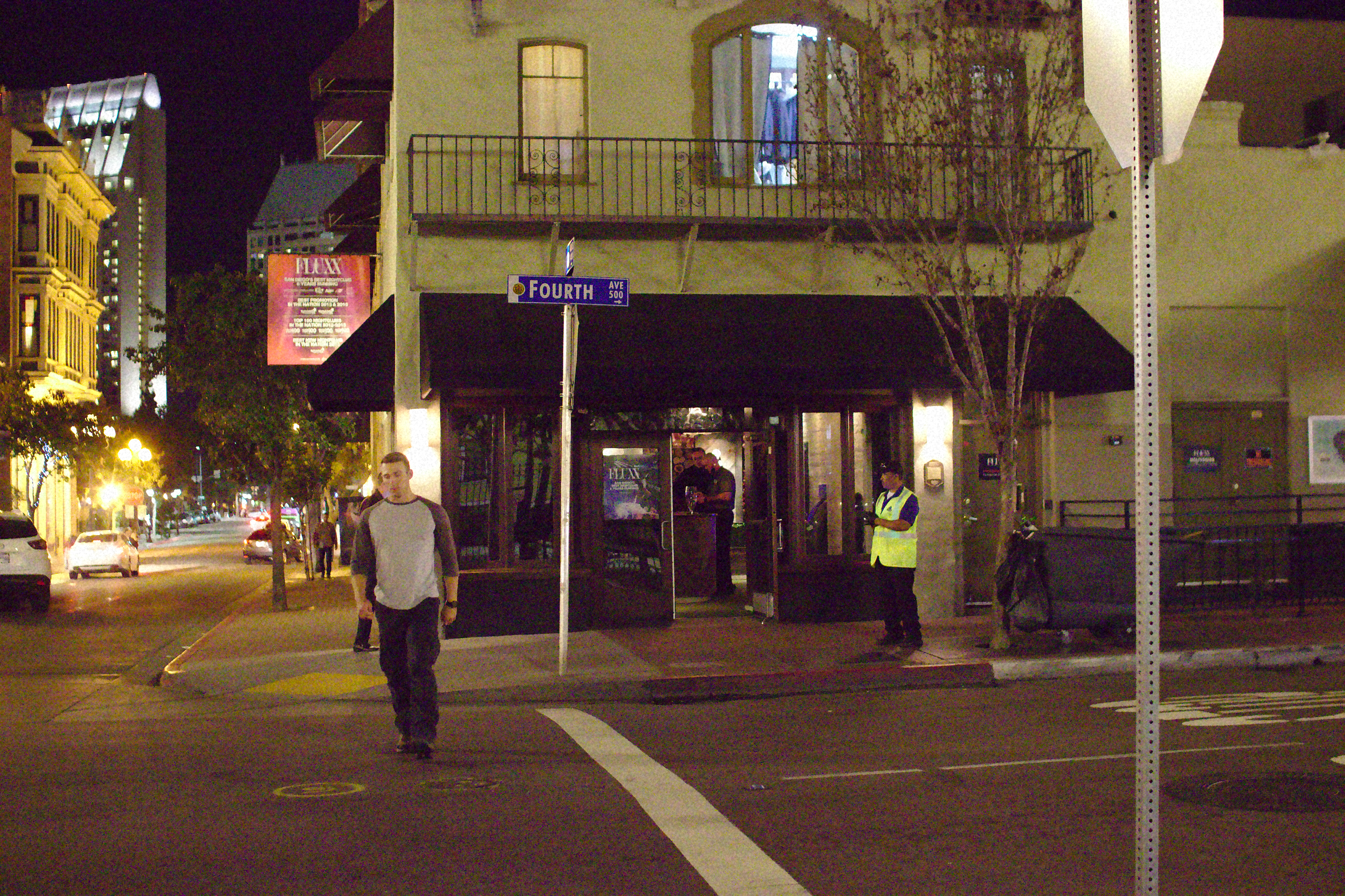 The entrance to Fluxx, a nightclub in San Diego, California